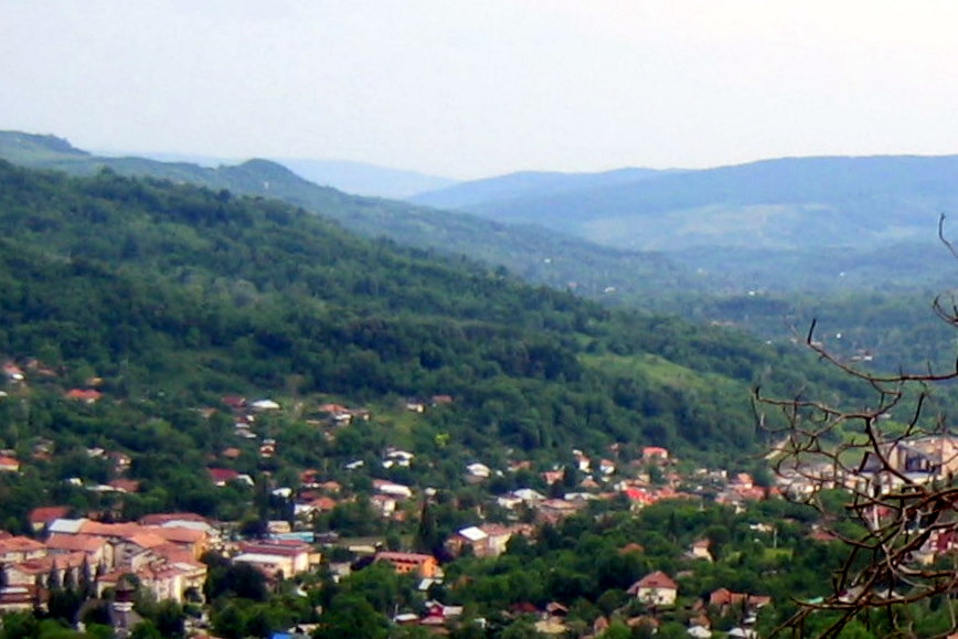 Photo taken from the top of Dealul cu Semn (Beacon's Hill). Camera is facing S-SE toward the town center. Date: June 2007